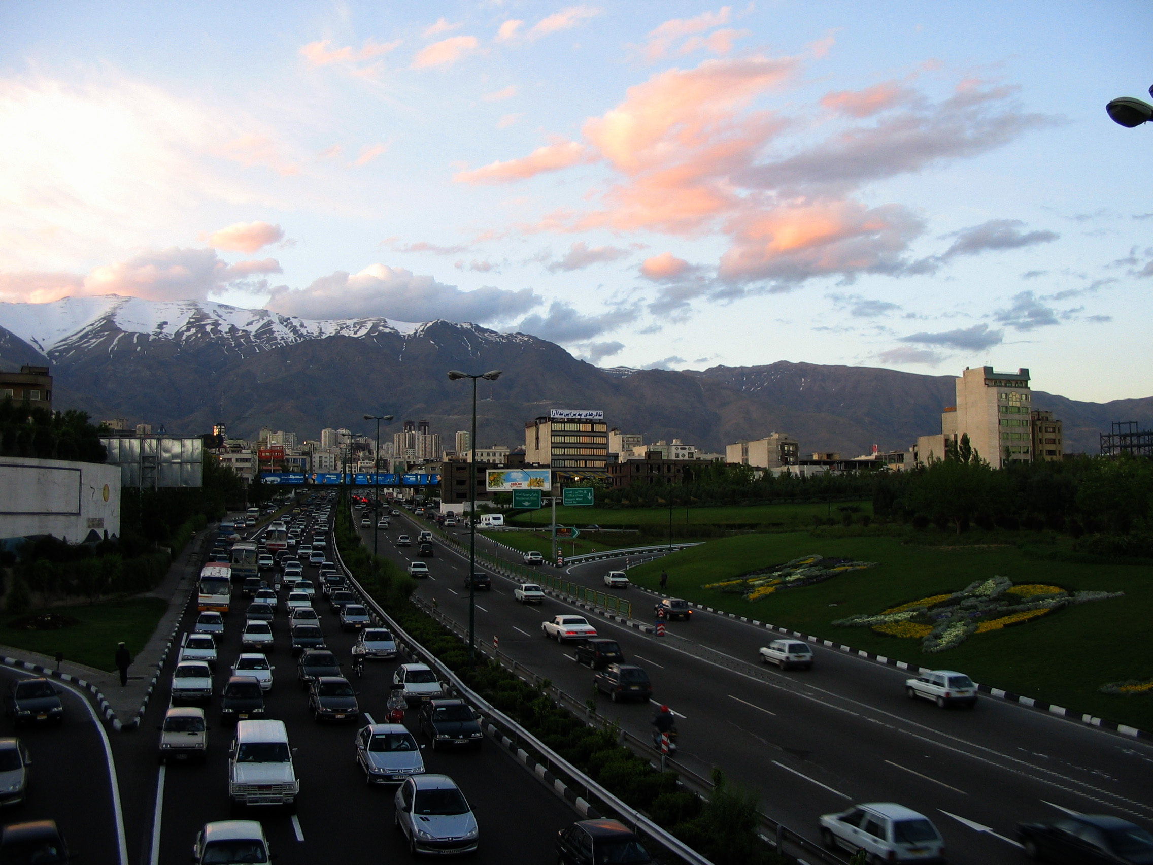 Near Sunset at end of 2006 Spring In Modaress Highway, Tehran